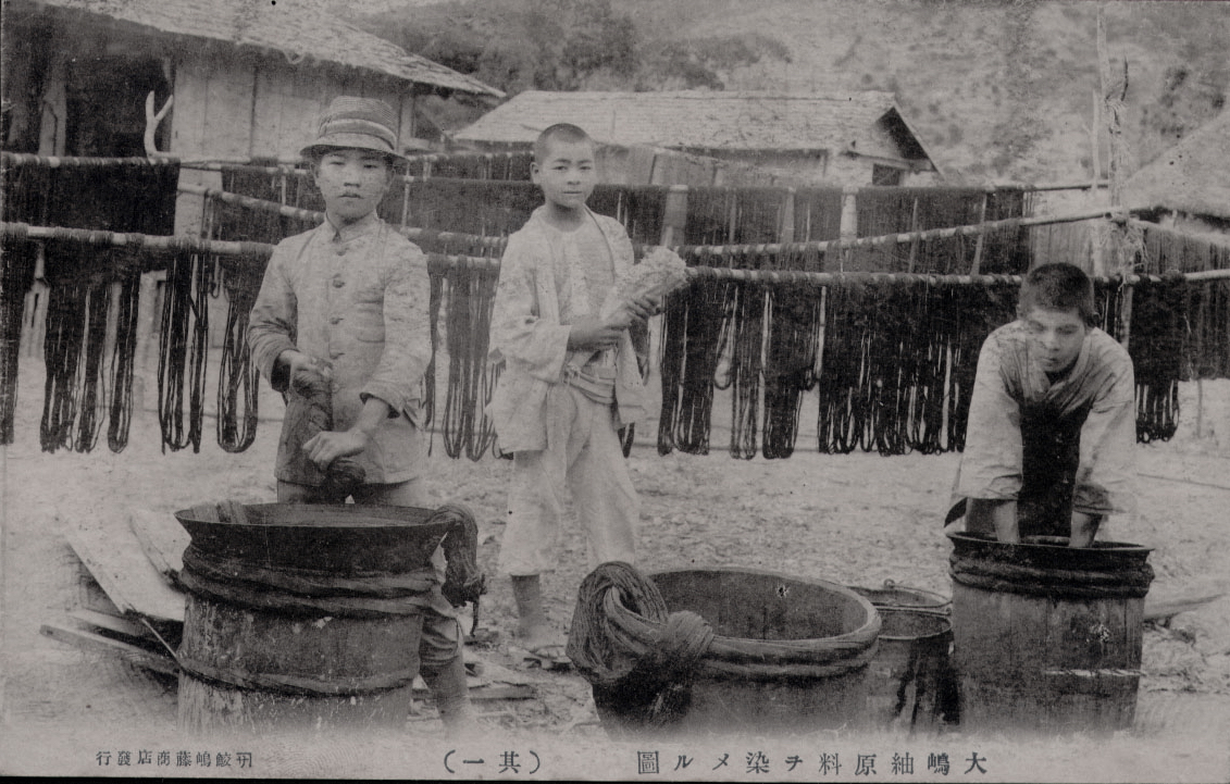 Pre-war Japanese postcard showing people dyeing Ōshima-tsumugi-related materials